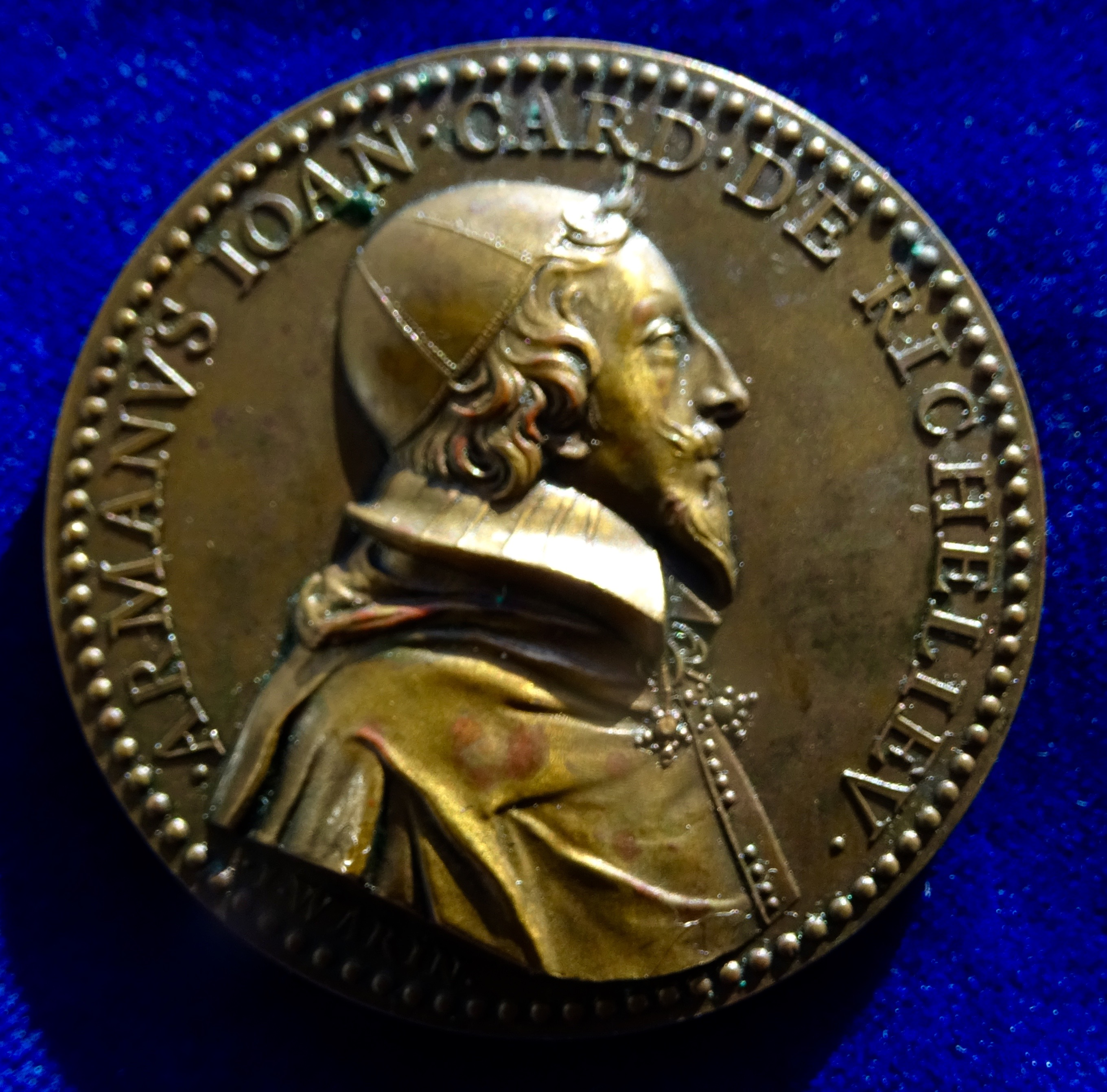 Medallion d. = 54 mm. Later strike. Armand Jean du Plessis, Cardinal-Duke of Richelieu and of Fronsac, 1585 Paris – 1642 Paris. Portrait r., curved above: "· ARMANVS IOAN · CARD · DE RICHELIEV ·"/ 7 stars above globe, curved above: "· MENS SIDERA VOLVIT ·", date in exergue. Edge lettering: "BRONZE". Forrer VI, p. 369. Condition: Nice EXTREMELY FINE+, little tarnish.